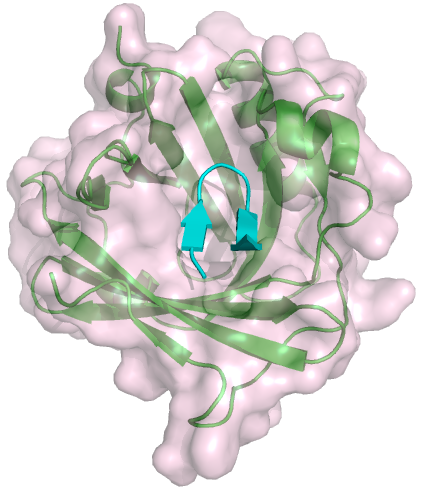 Crystal structure of C8gamma (green) with bound peptide from C8alpha (cyan)